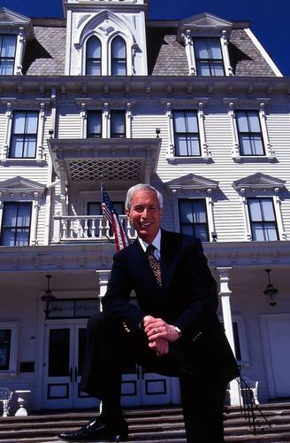 Michael P. Price, long-time Executive Director, in front of the Goodspeed Opera House.